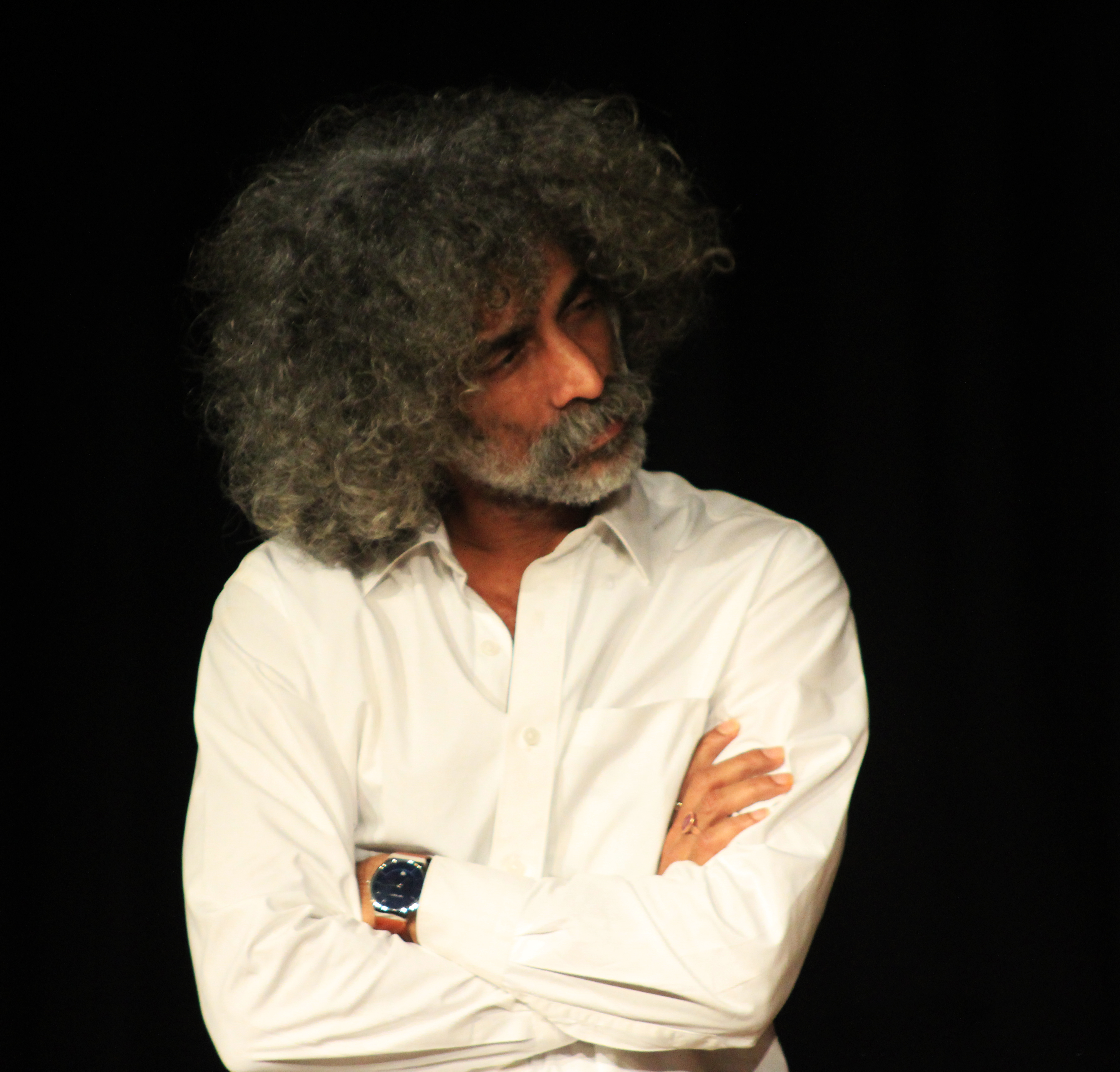 Actor Makrand Deshpande Picture Taken at Bharat Bhavan Bhopal Event.